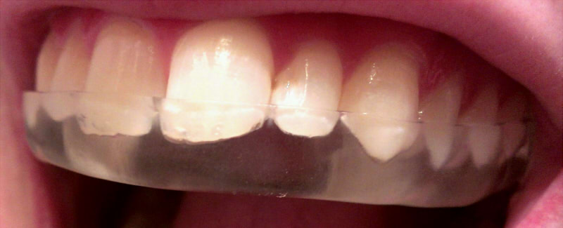 Image of a patient wearing a vacuum form mouth guard made from an impression using dental alginate.